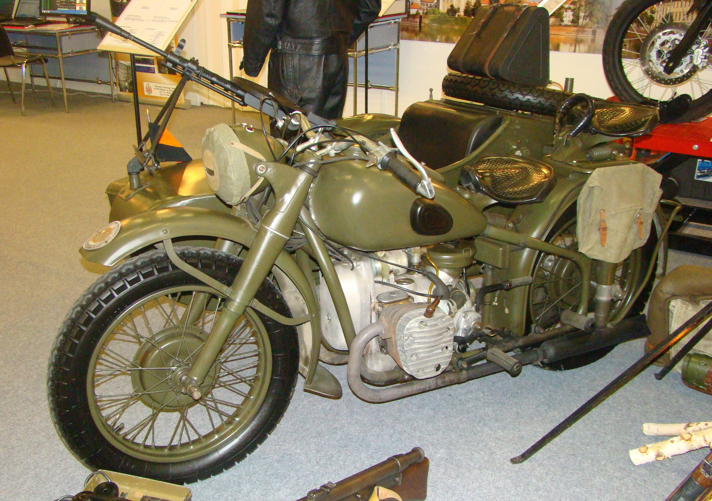 M-72 motorcycle with sidecar.